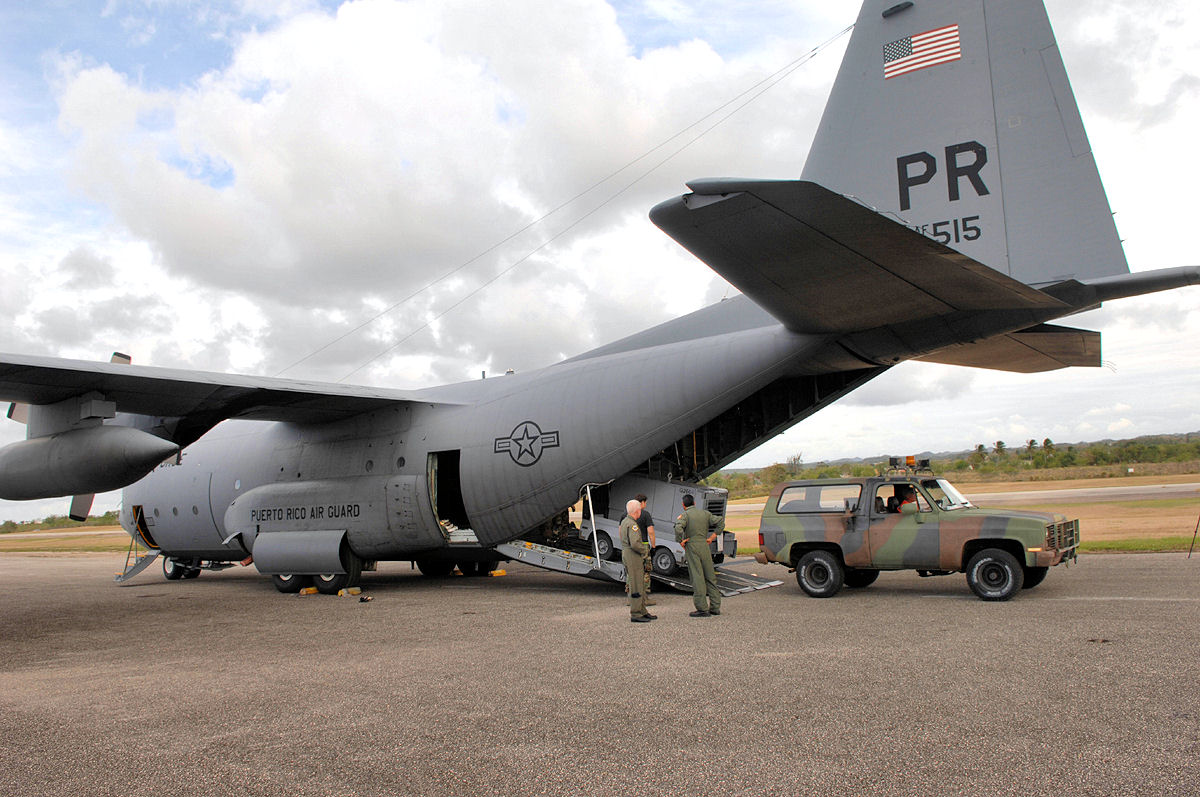 Mobile lighting units are loaded onto a C-130H Hercules from Muniz Air National Guard Base, Puerto Rico, during Patriot Hoover 2009 at Ramey airfield in Aguadilla, Puerto Rico, April 30, 2009. Patriot Hoover 2009 is a large-scale air mobility exercise involving units from Air Force Reserve Command, the Puerto Rico Air National Guard and the FBI. (U.S. Air Force photo/Staff Sgt Daniel St. Pierre)